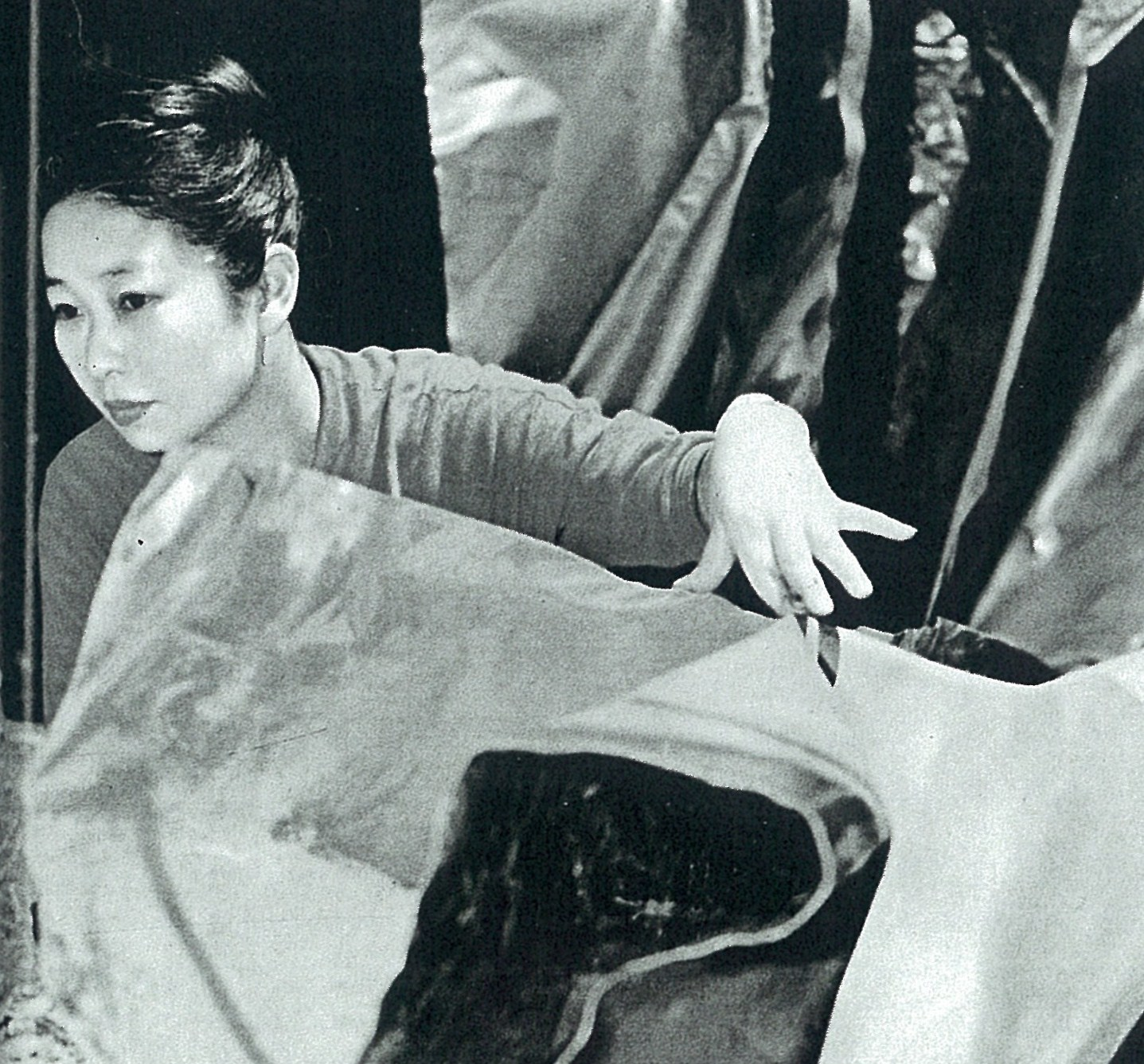 Minami Tada was a Japanese female sculptor.